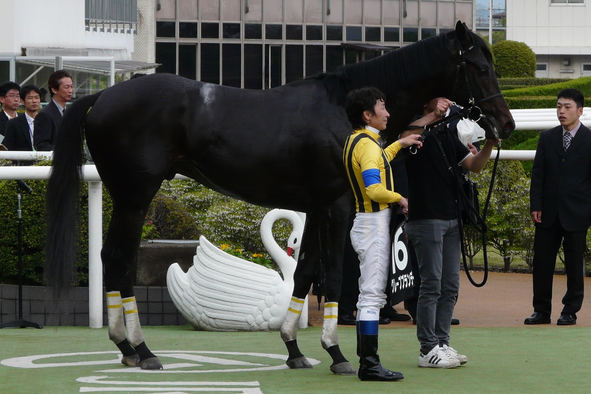 Grape-Brandy20110501